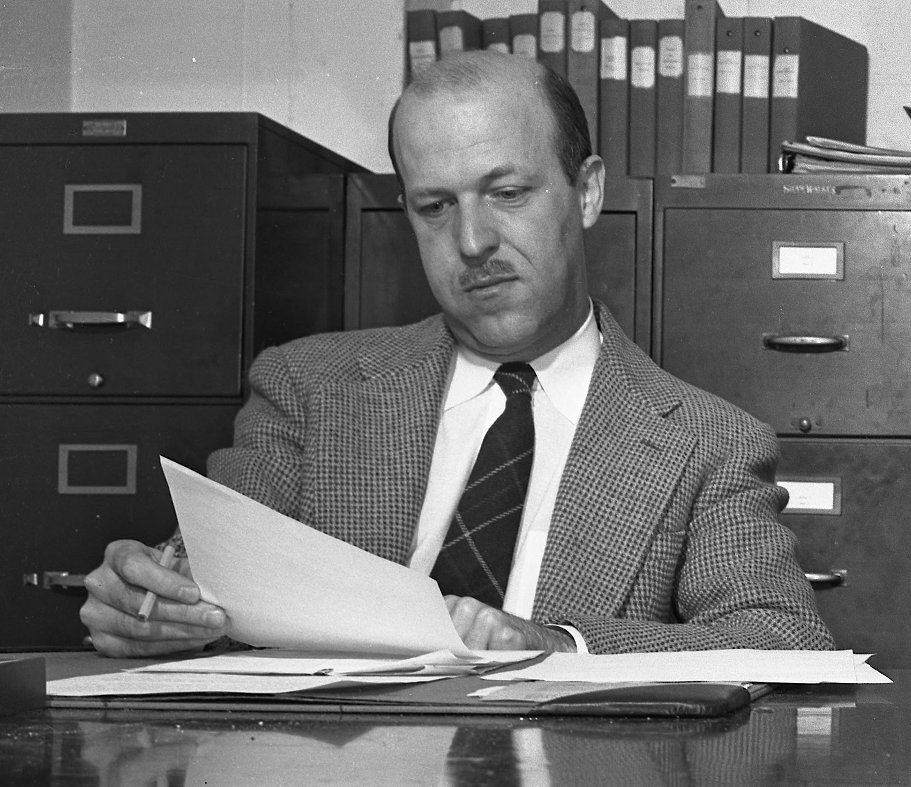 Angus Campbell (L) and Rensis Likert go over plans for a survey in 1948